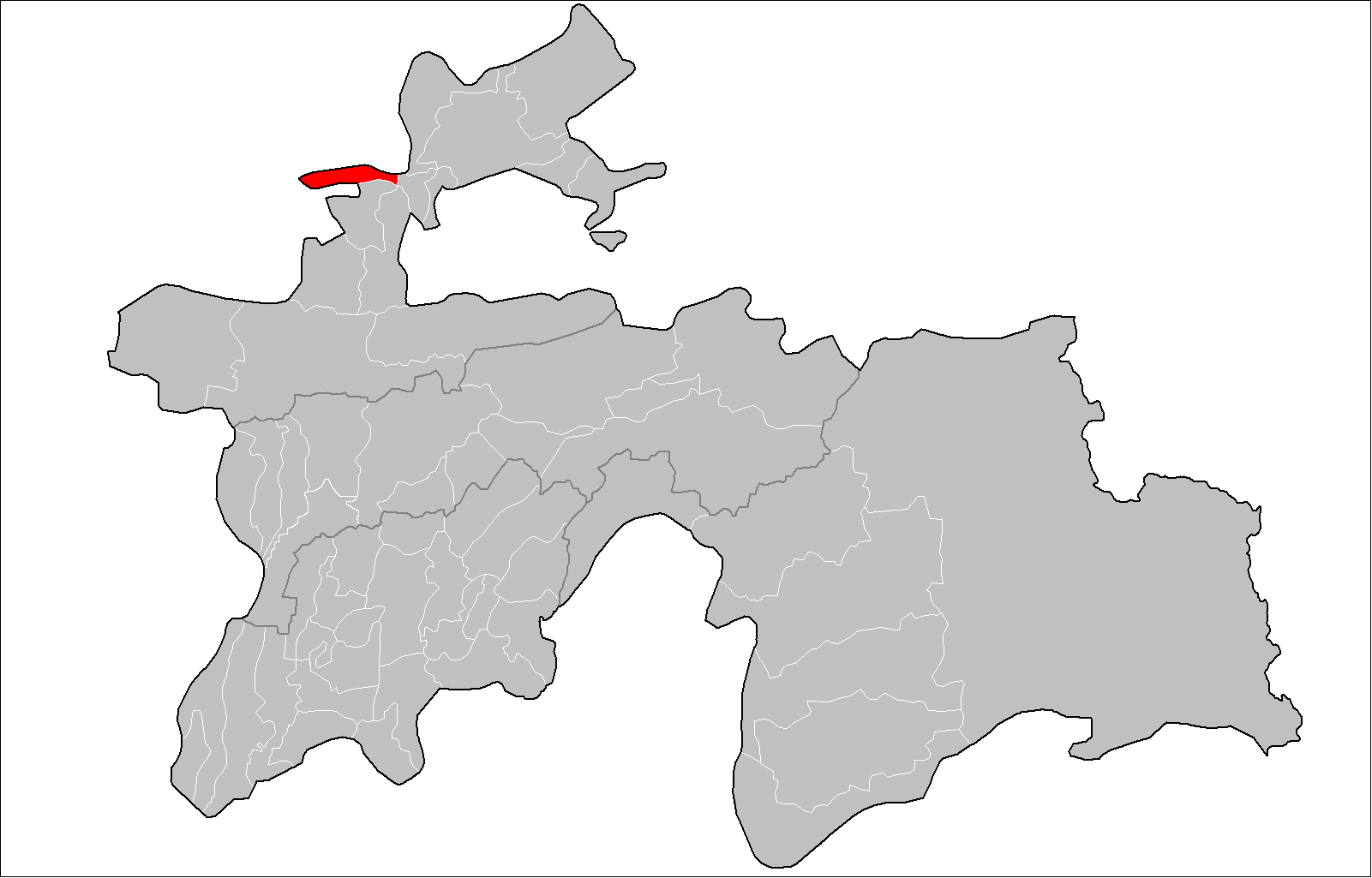 Location of Zafarobod District in Tajikistan